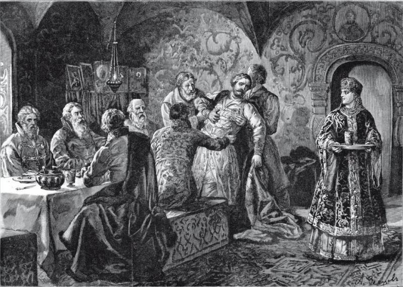 Mikhail Skopin-Shuisky poisoned at a feast 1610